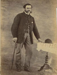 Allan Kerr Taylor, owner of Alberton in Auckland.